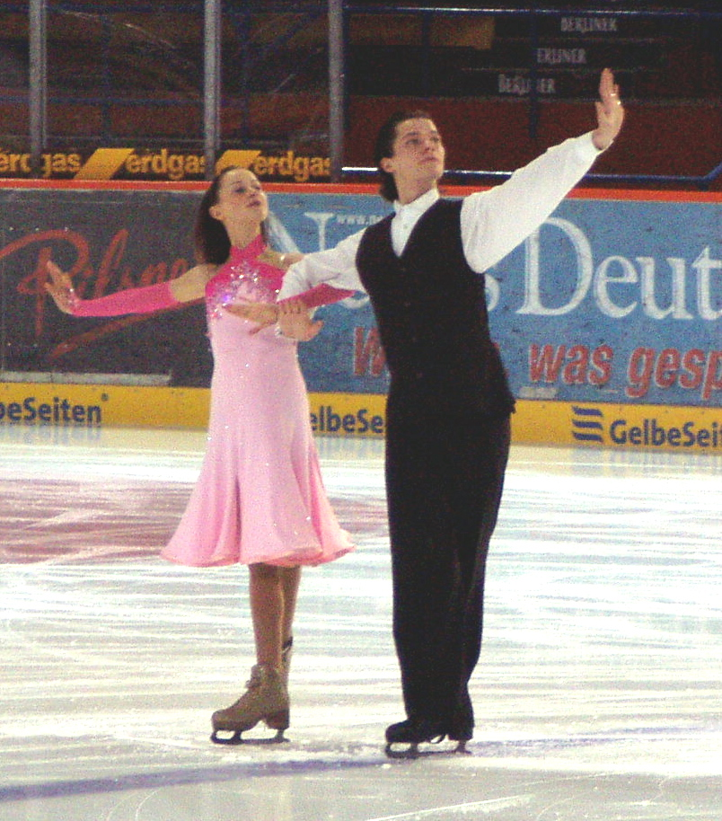 Rina Thieleke and Sascha Rabe at the compulsory dances at the German championships 2006 in Berlin